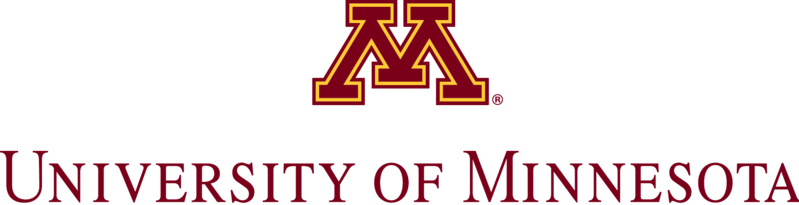 University of Minnesota wordmark.